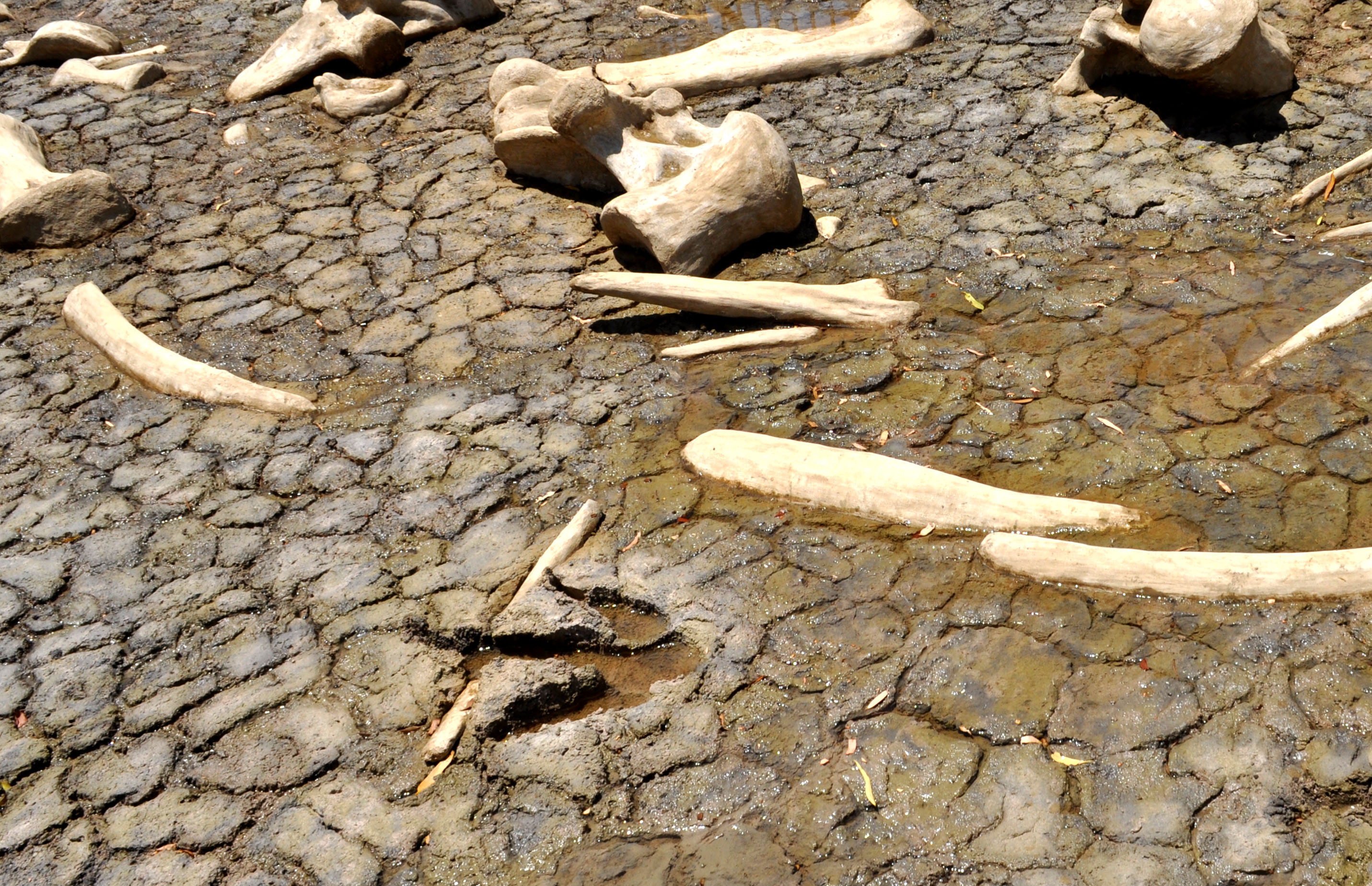 Close up Death in the Billabong exhibit